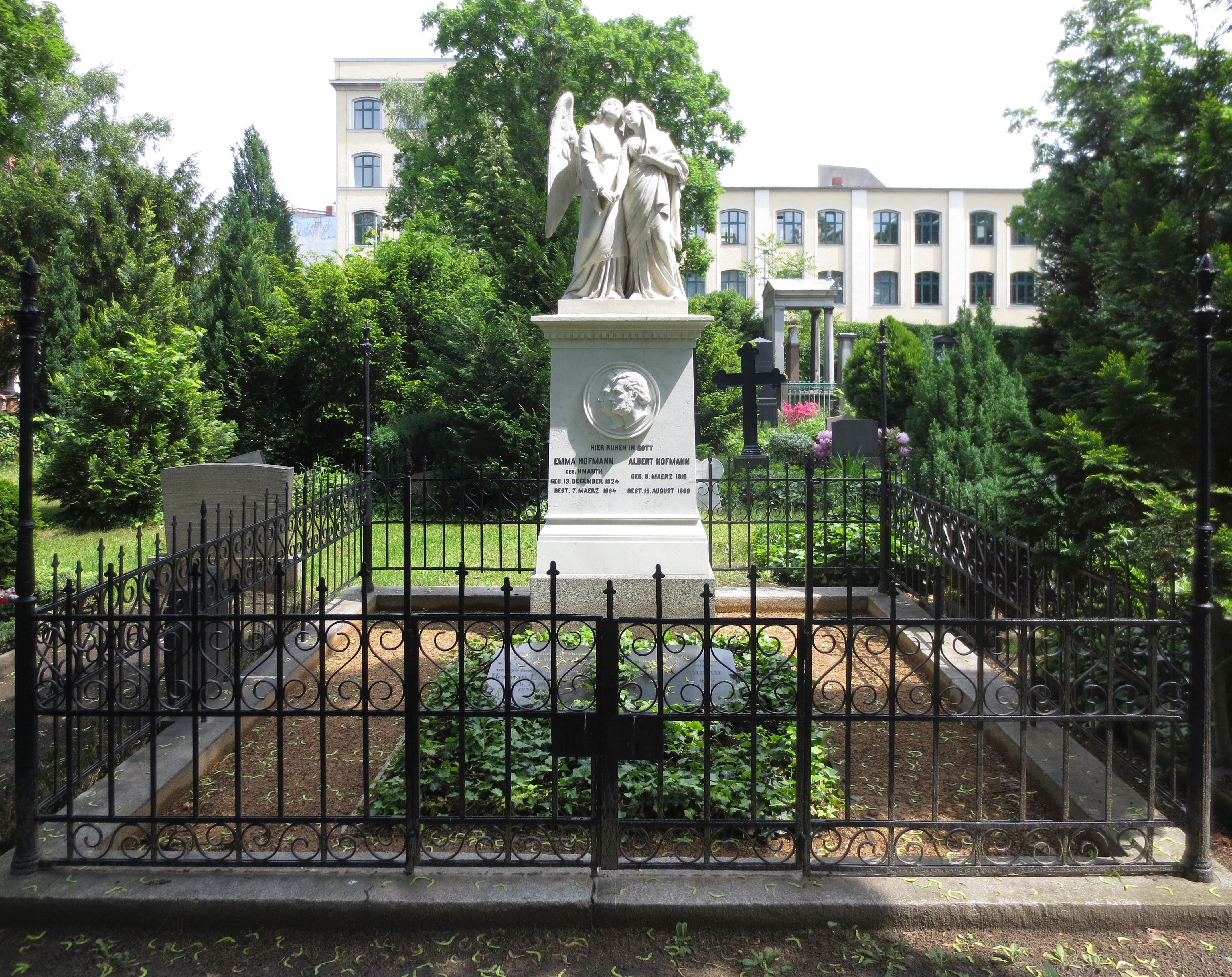 Grave of the publisher and impresario Heinrich Albert Hofmann (1818-1880) and his wife Emma née Knauth (1824-1864) on Cemetery II of the Jerusalem and New Church Congregations at Zossener Straße in Berlin-Kreuzberg. The grave monument with the sculpture was created by Erdmann Encke (1843-1896).